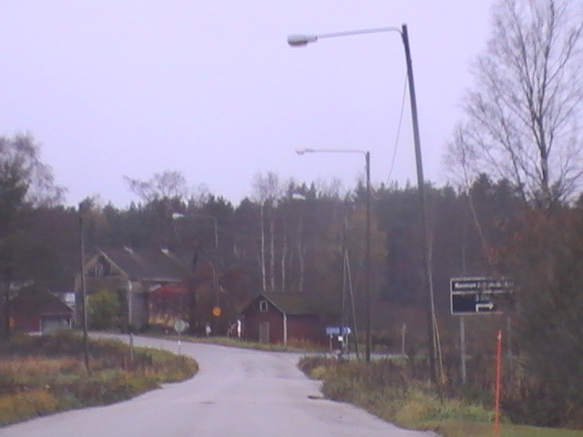 The village of Murtamo at Rauma seen from the direction of east. At photo you can see the crossroad of Saarentie.